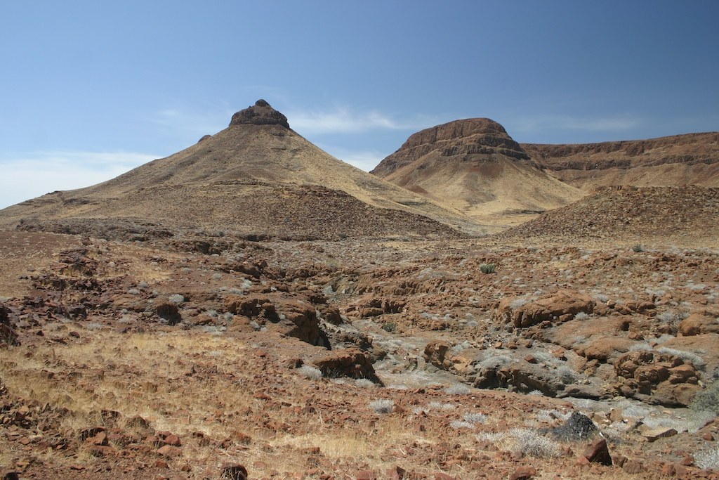 Goboboseb Mountains